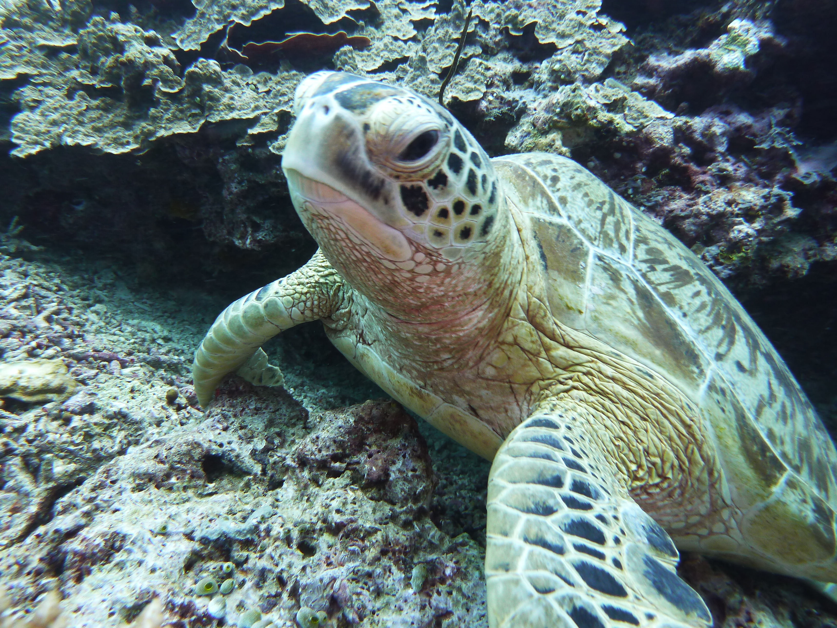 Green Turtlel on Pom Pom Island, Celebes resort, Sabah